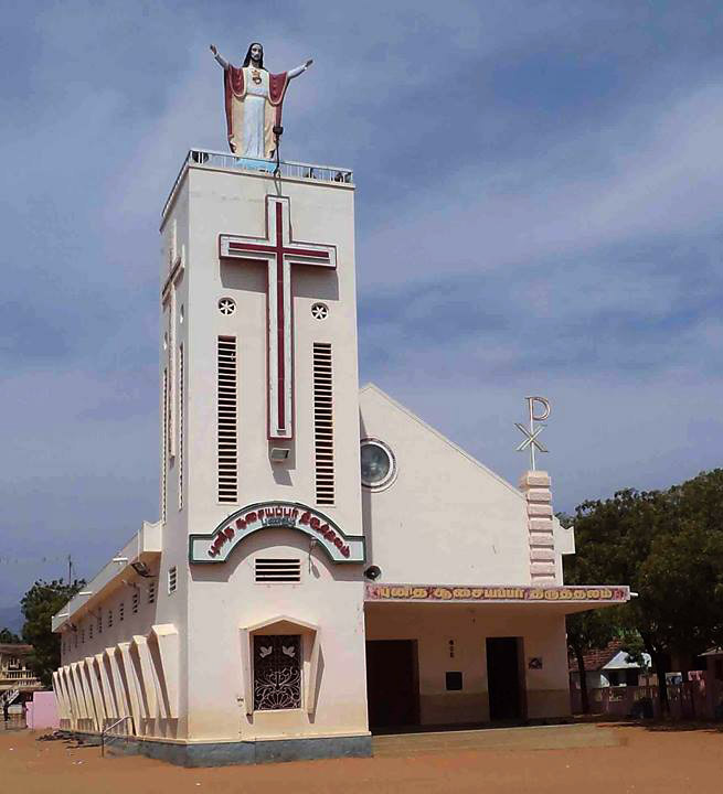 The Shrine built in the honor of St.Joseph, the step father of Jesus.